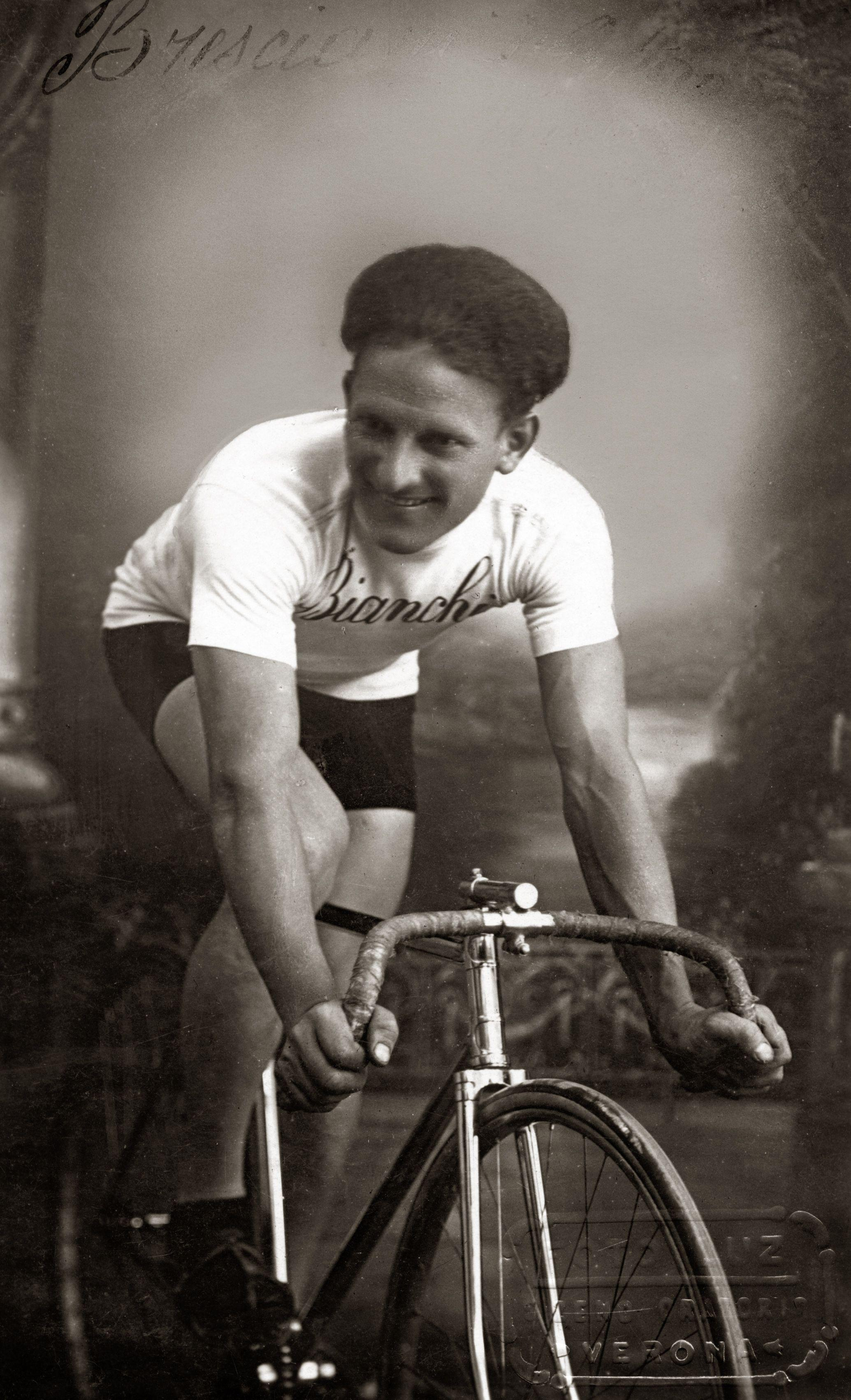 Racing cyclist Arturo Bresciani. Date unknown.